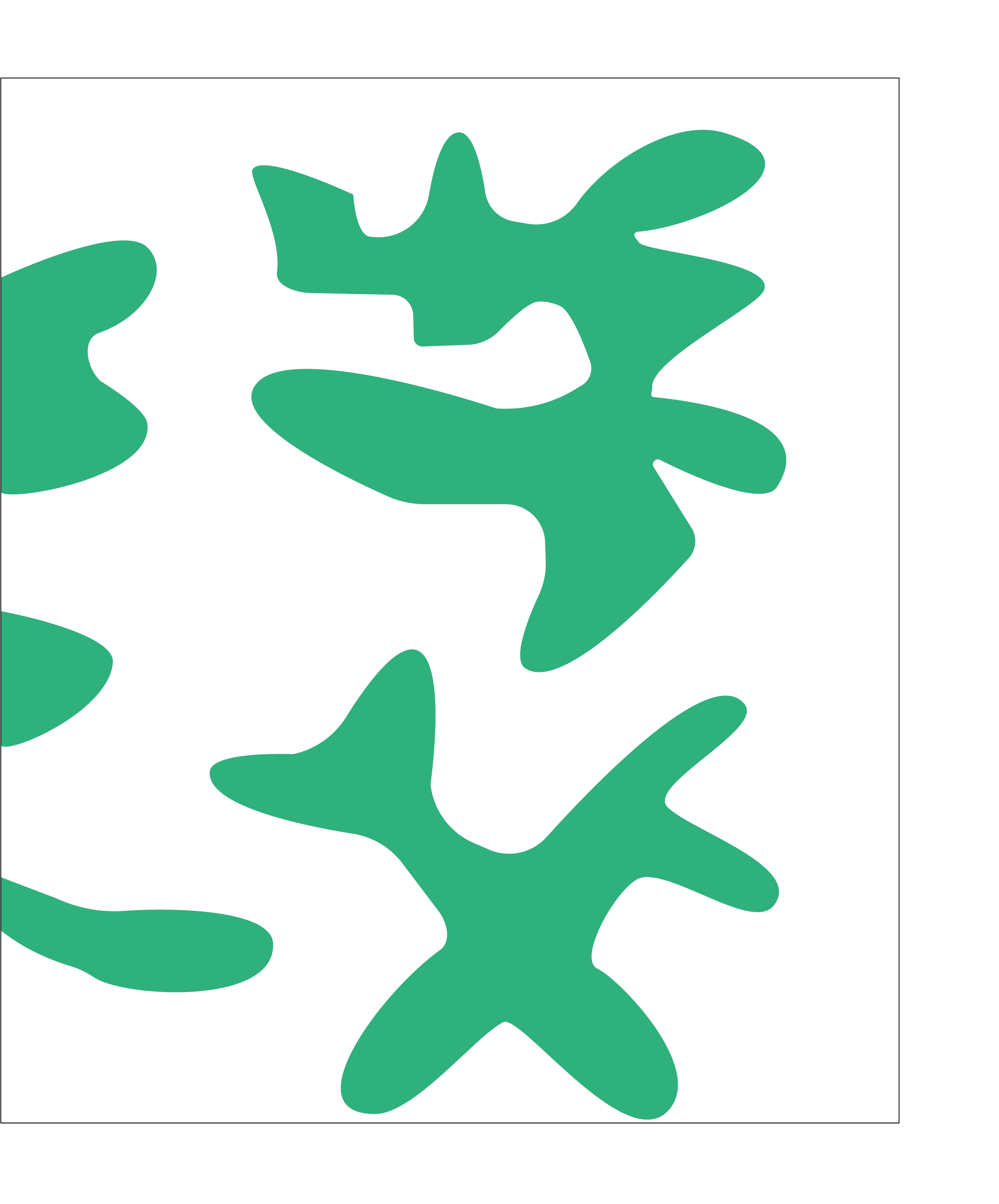 Based on David Nicolle "Armies of the Muslim Conquest" illustrations by Angus McBride. And Martin Hinds "The Banners and Battle Cries of the Arabs at Siffin" Al-Abhath XXIV